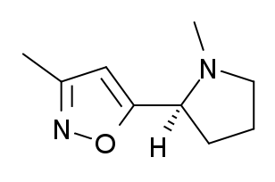 Skeletal formula of ABT-418 — a nicotinic agonist.